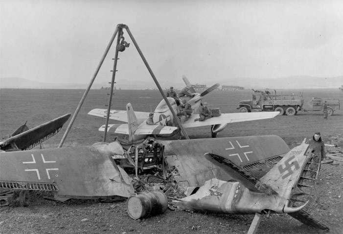 A North American P-51D Mustang of the 354th Fighter Group, USAAF, at Ober-Olm airfield (code Y-64), county of Mainz-Bingen, Rhineland-Palatine, Germany, probably around 8 April 1945, when the 345th FG moved to Ober-Olm. In the foreground is the wreck of Focke-Wulf Fw 190D-9 (s/n 210917). It was produced in December 1944 and seems to have been blown up by the retreating German troops. Original caption: "This P-51 Mustang of the pioneer Mustang Group was the first plane of the AEF to be serviced east of the Rhine. The field was in the vicinity of Frankfurt."